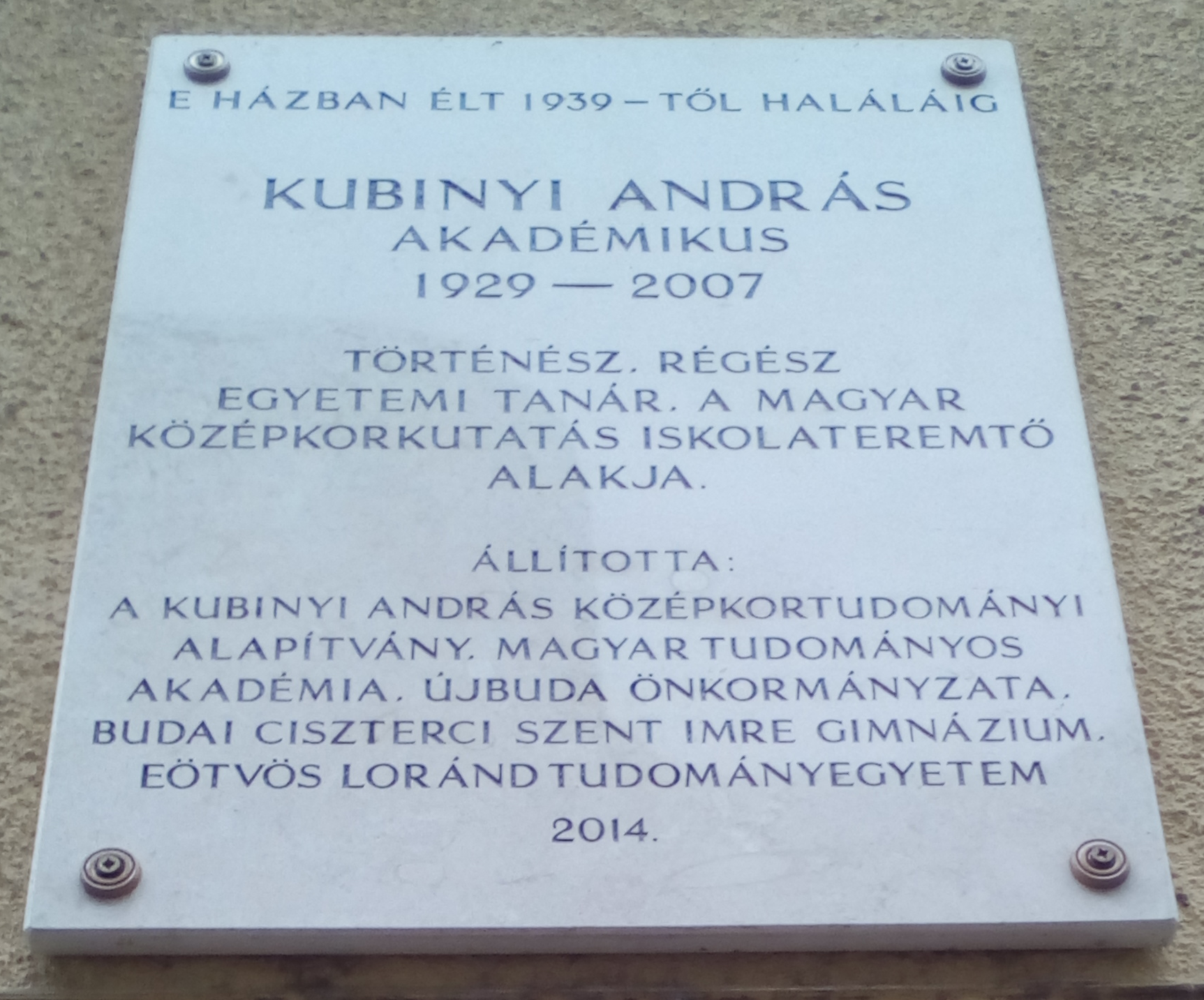 András Kubinyi commemorative plaque in Budapest District XI, Bercsényi Street No 6.